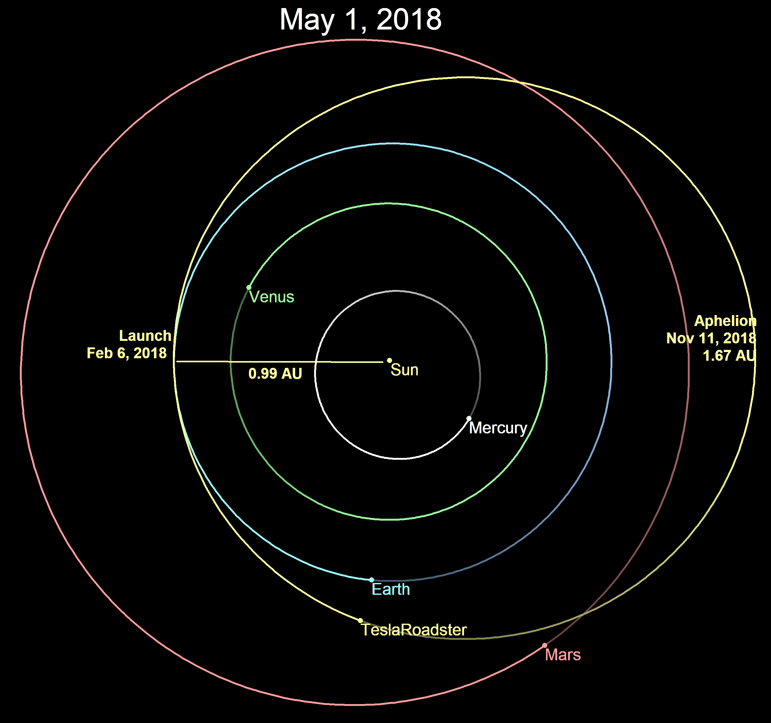 Falcon Heavy Demonstration Mission Orbital diagram, ORIGINAL traced from [1] NEW 2/8/18 Path from JPL Horizons select object "SpaceX Roadster (spacecraft) (Tesla)"